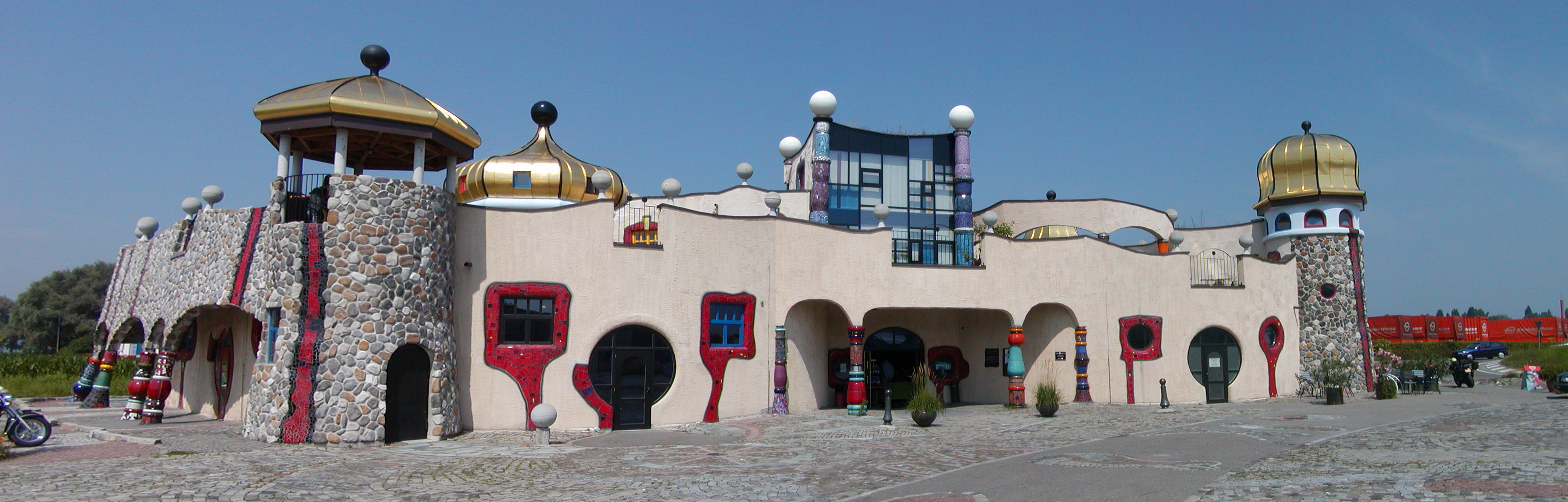 Panorama of a Hundertwasser building.